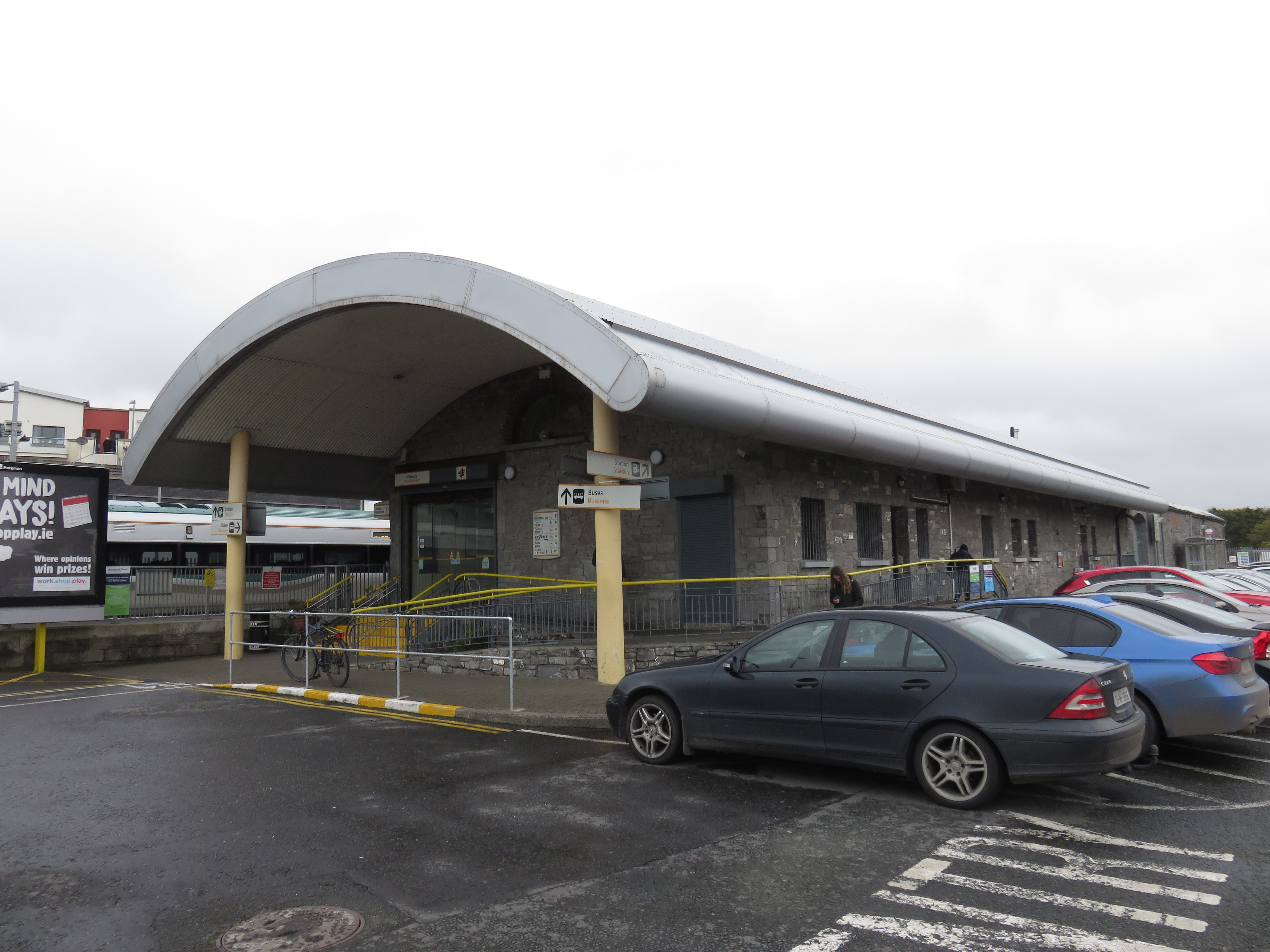 Kilkenny railway station in Kilkenny, Ireland in 2018